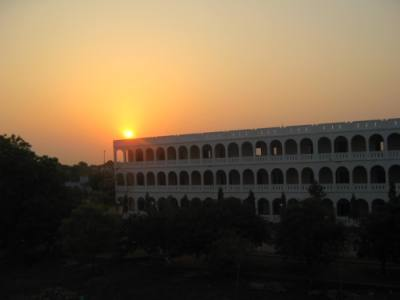 This photo is taken by me.